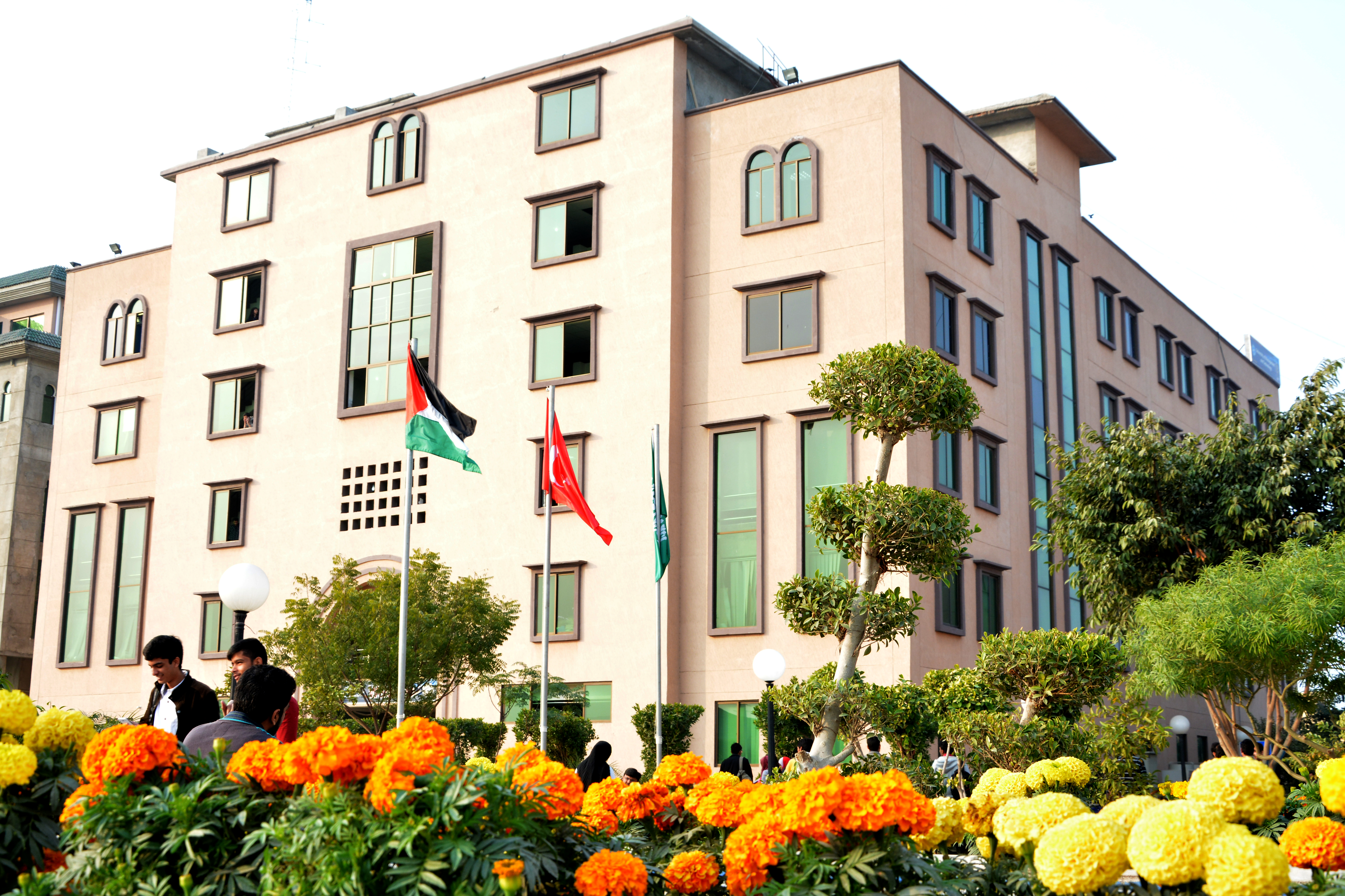 University of Management and Technology Library Building